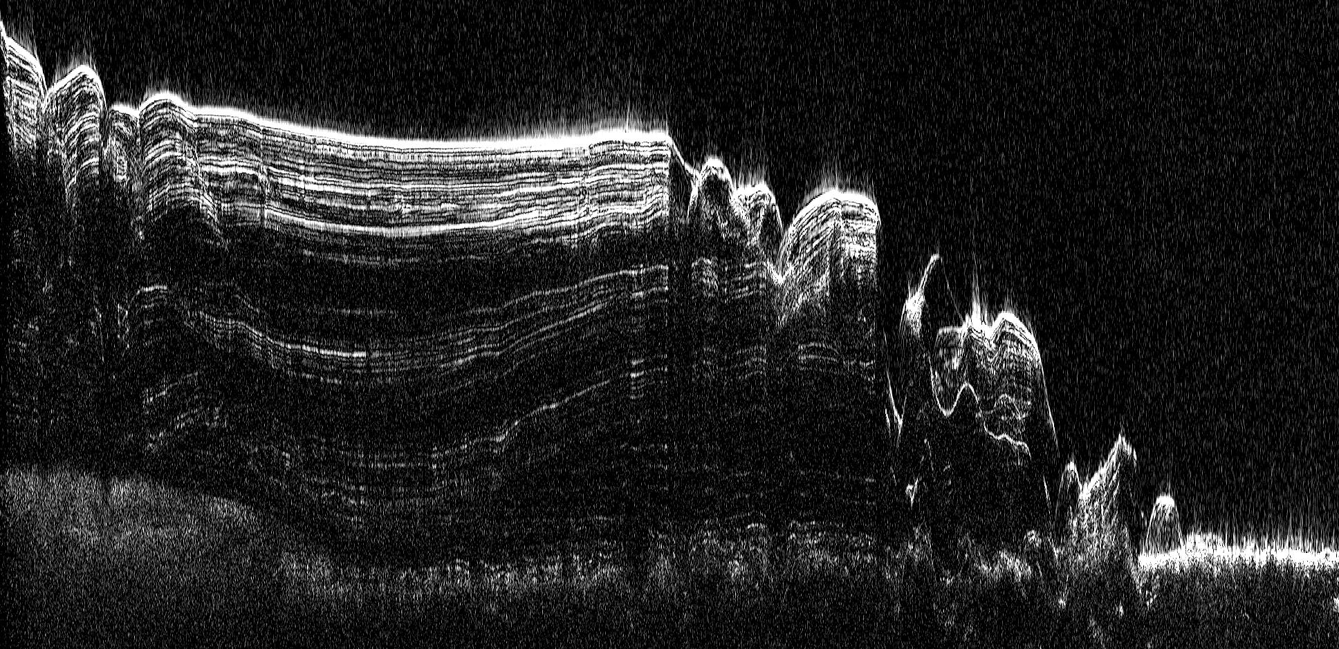 This image shows a cross-section of a portion of the north polar ice cap of Mars, derived from data acquired by the Mars Reconnaissance Orbiter's Shallow Radar (SHARAD), one of six instruments on the spacecraft. The data depict the region's internal ice structure, with annotations describing different layers. The ice depicted in this graphic is approximately 2 kilometers (1.2 miles) thick and 250 kilometers (155 miles) across. White lines show reflection of the radar signal back to the spacecraft. Each line represents a place where a layer sits on top of another. Scientists study how thick the pancake-like layers are, where they bulge and how they tilt up or down to understand what the surface of the ice sheet was like in the past as each new layer was deposited.